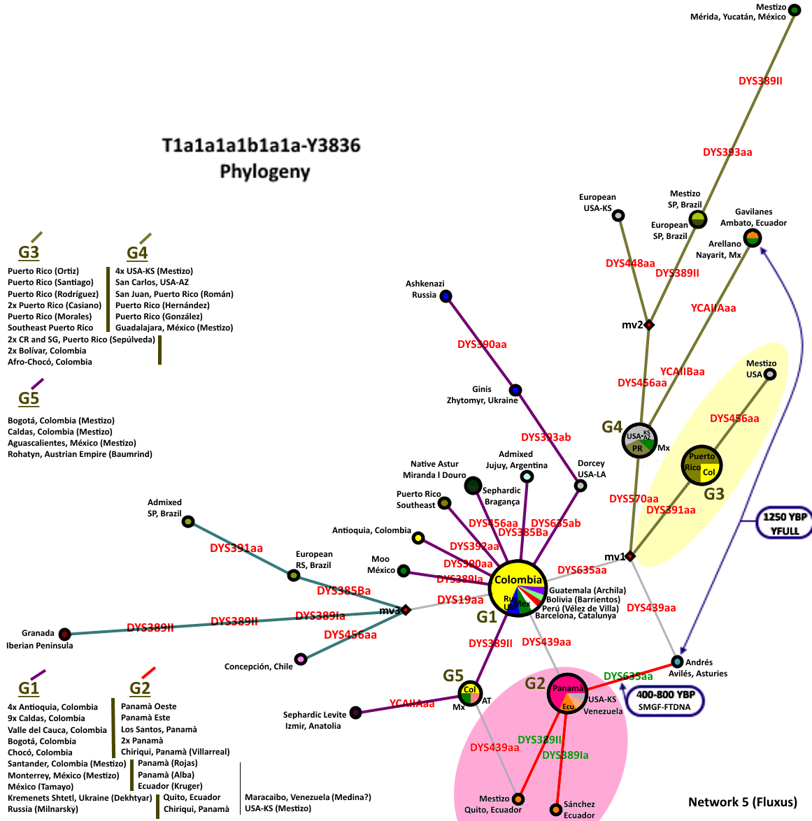 T-Y3836 Phylogeny. Using 19 Y-STR markers with Network 5 (Fluxus). Used samples: FTDNA T Project, SMGF database, YHRD, YSEARCH and several published studies.